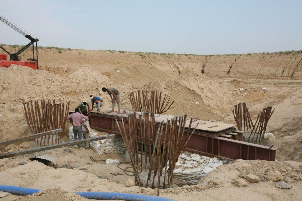 Vrindavan Chandrodaya Mandir Underconstruction